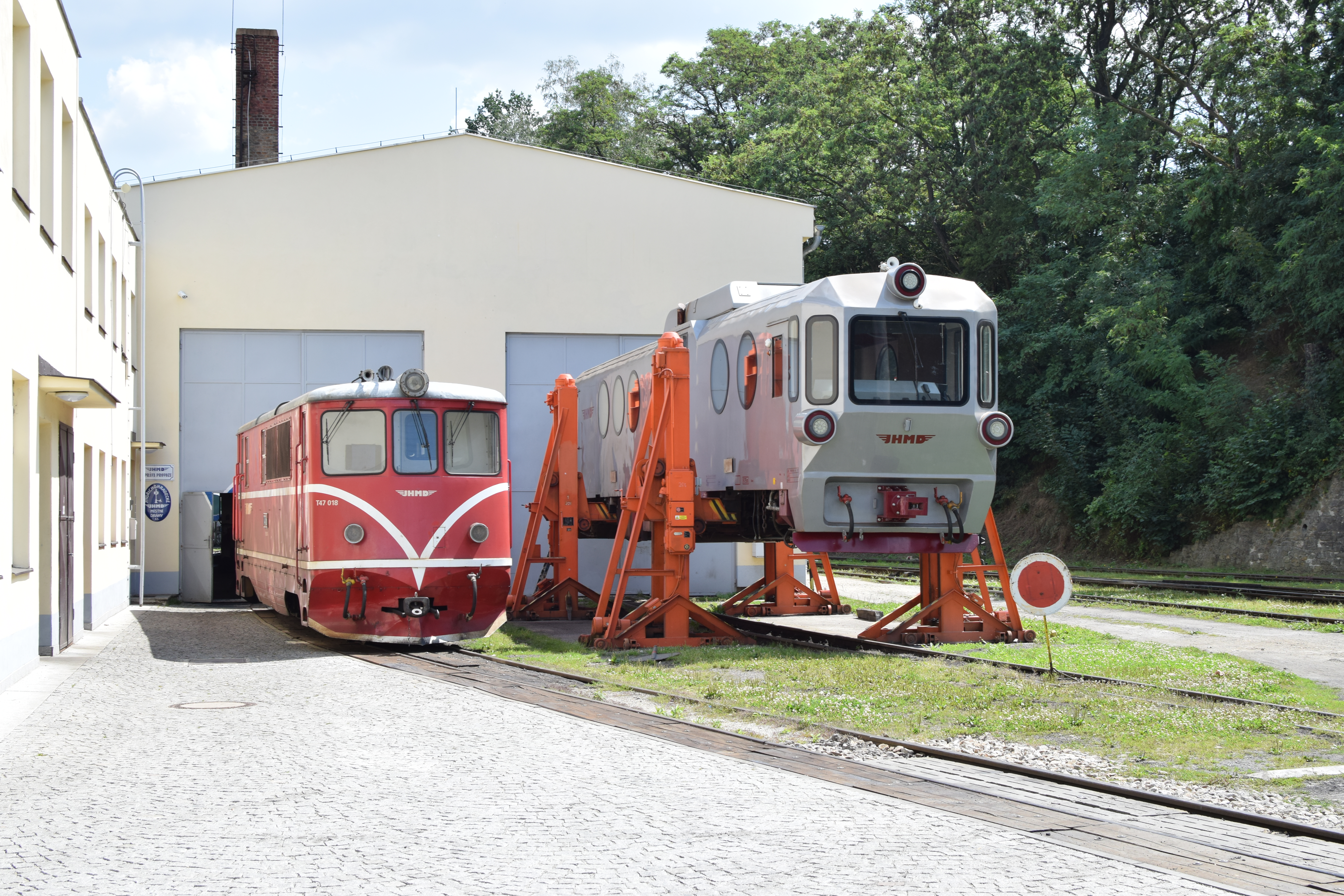 Maintenance base for the JHMD narrow-gauge railway in Jindrichuv Hradec.